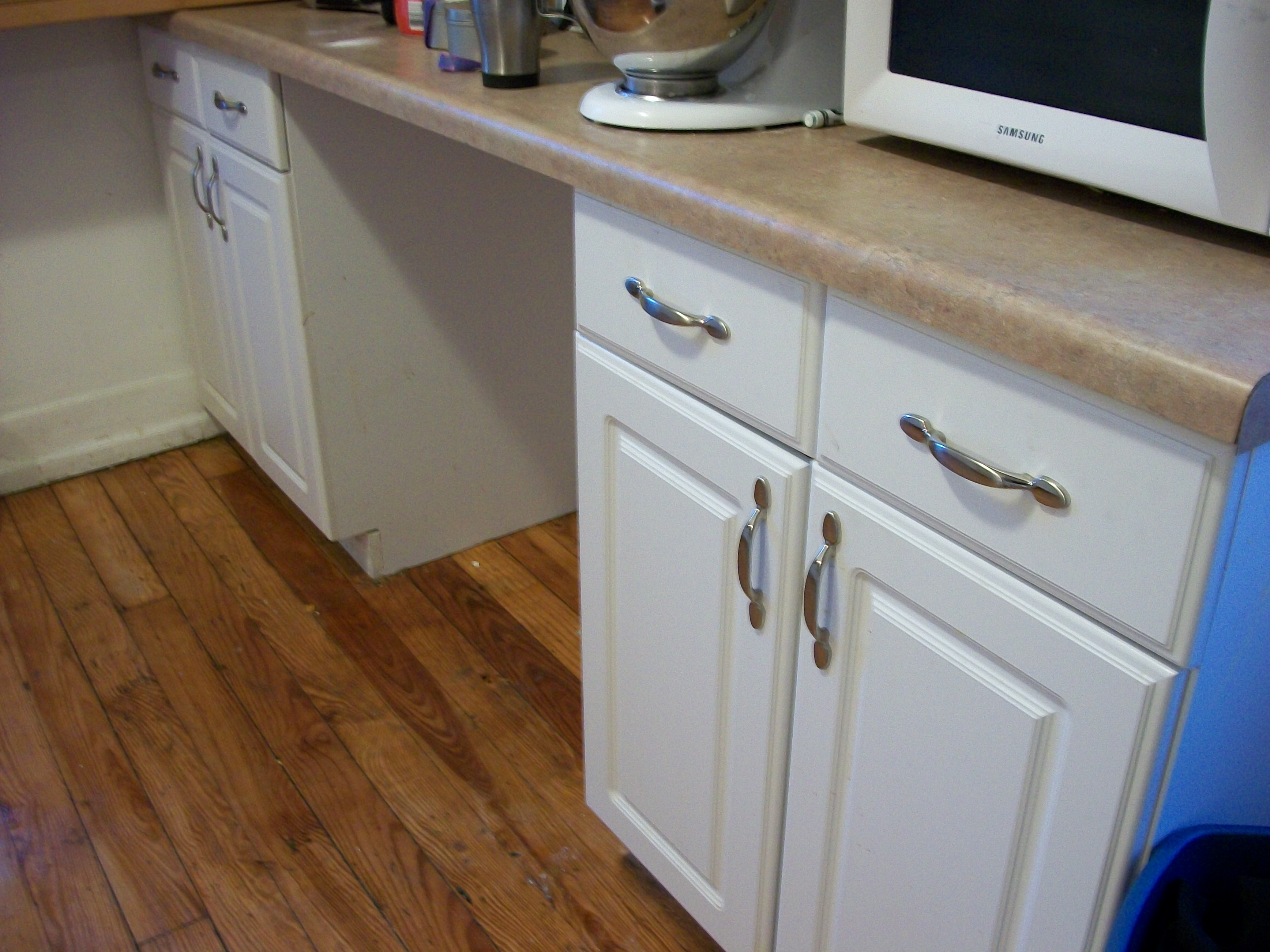 Handymen can install kitchen cabinets like these from pre-manufactured kits at home centers. Build top rows first, then work down. Make sure to attach cabinets in back to studs in wall.